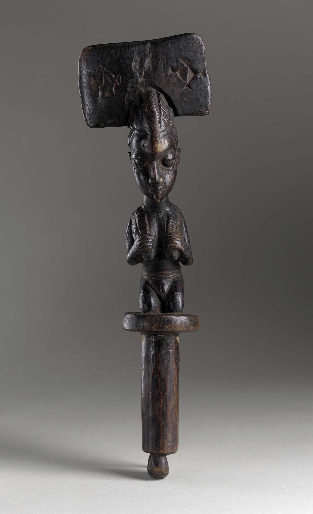 Africa, Nigeria, Yoruba peoples Tools and Equipment Wood Length: 10 in. (25.40 cm) Gift of Diane R. Wedner and Ronald M. Ziskin (AC1993.218.1) African Art